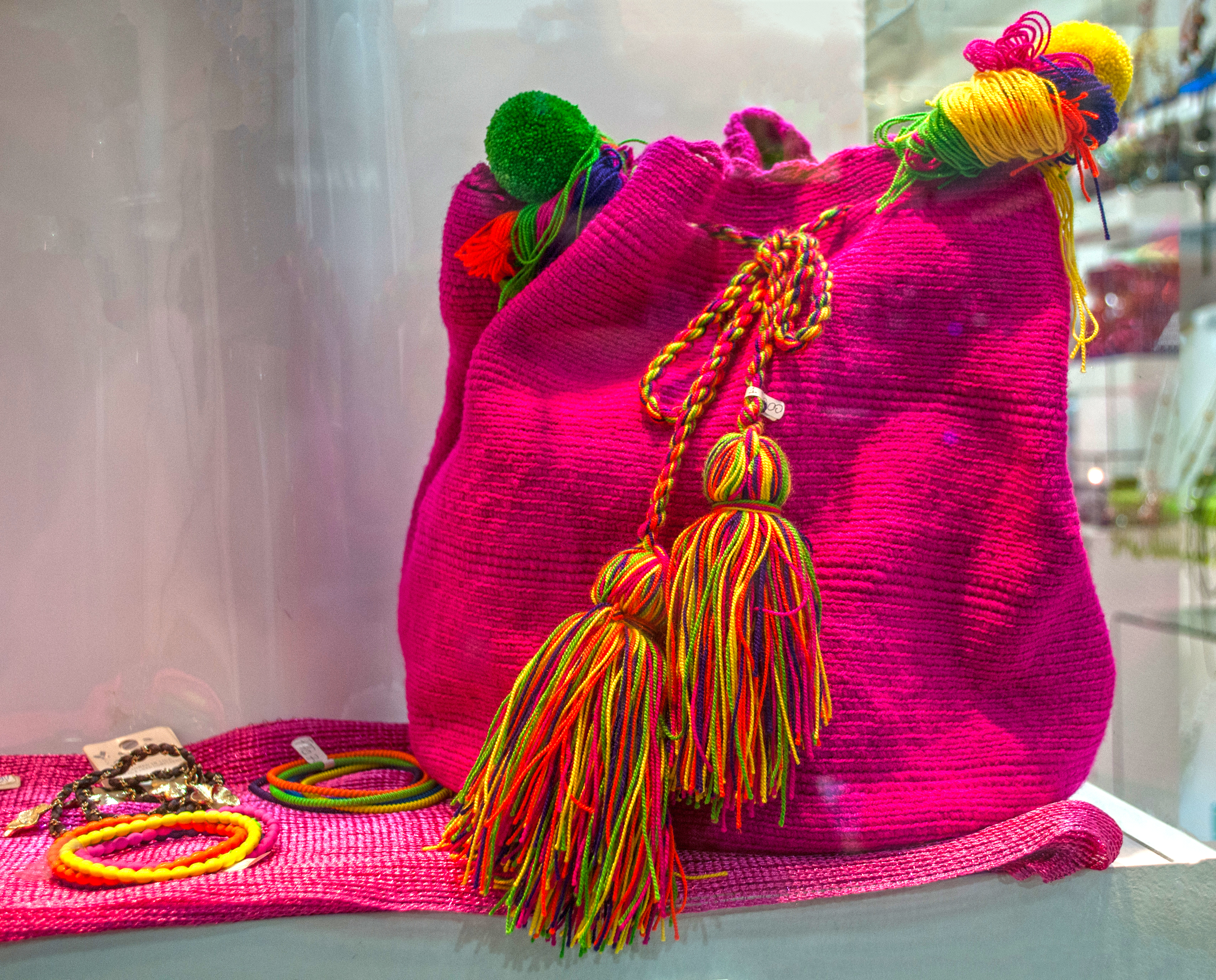 Wayuu bag